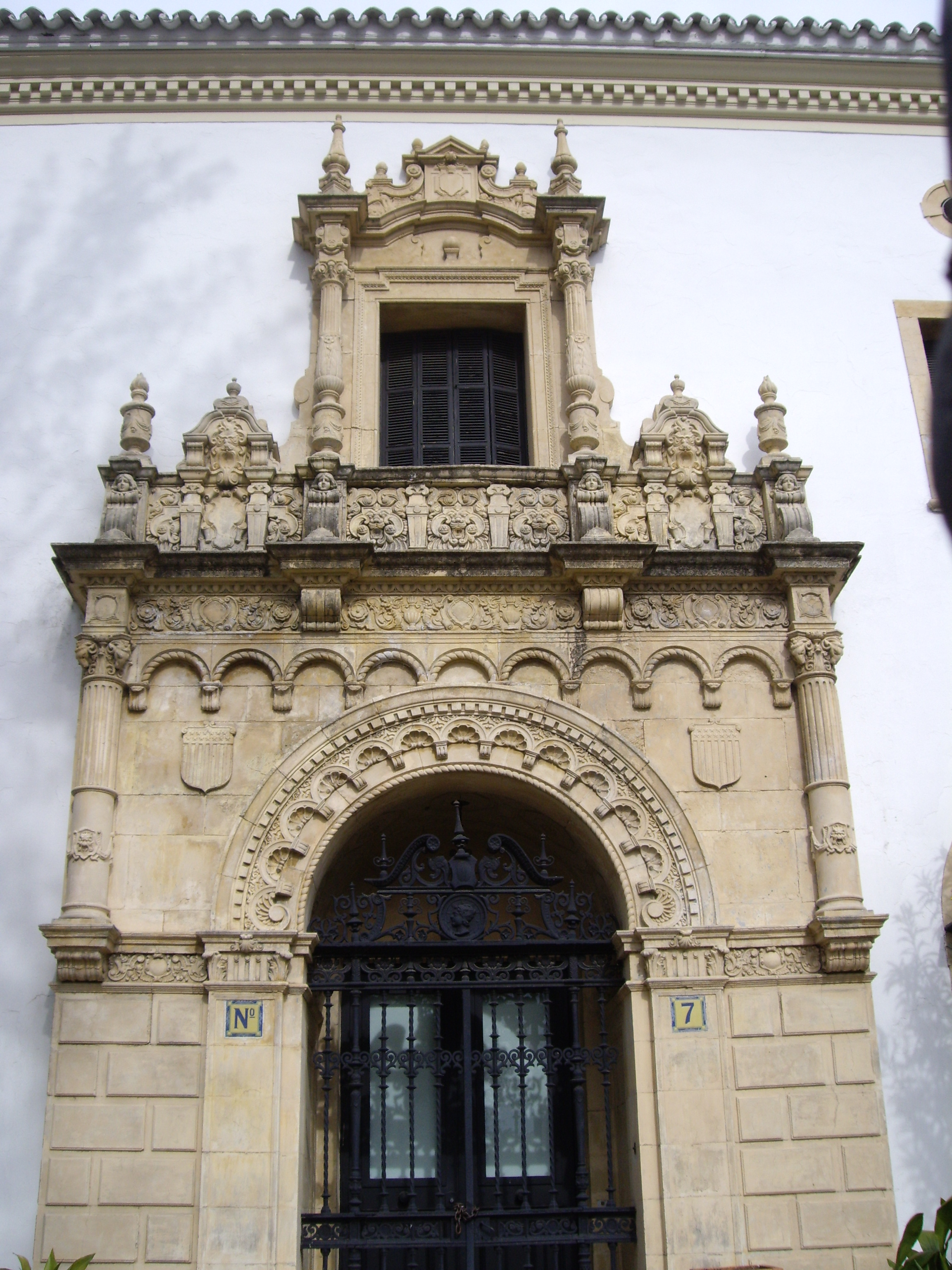 Puerta principal del Pabellón de los Estados Unidos de la Exposición Iberoamericana de 1929